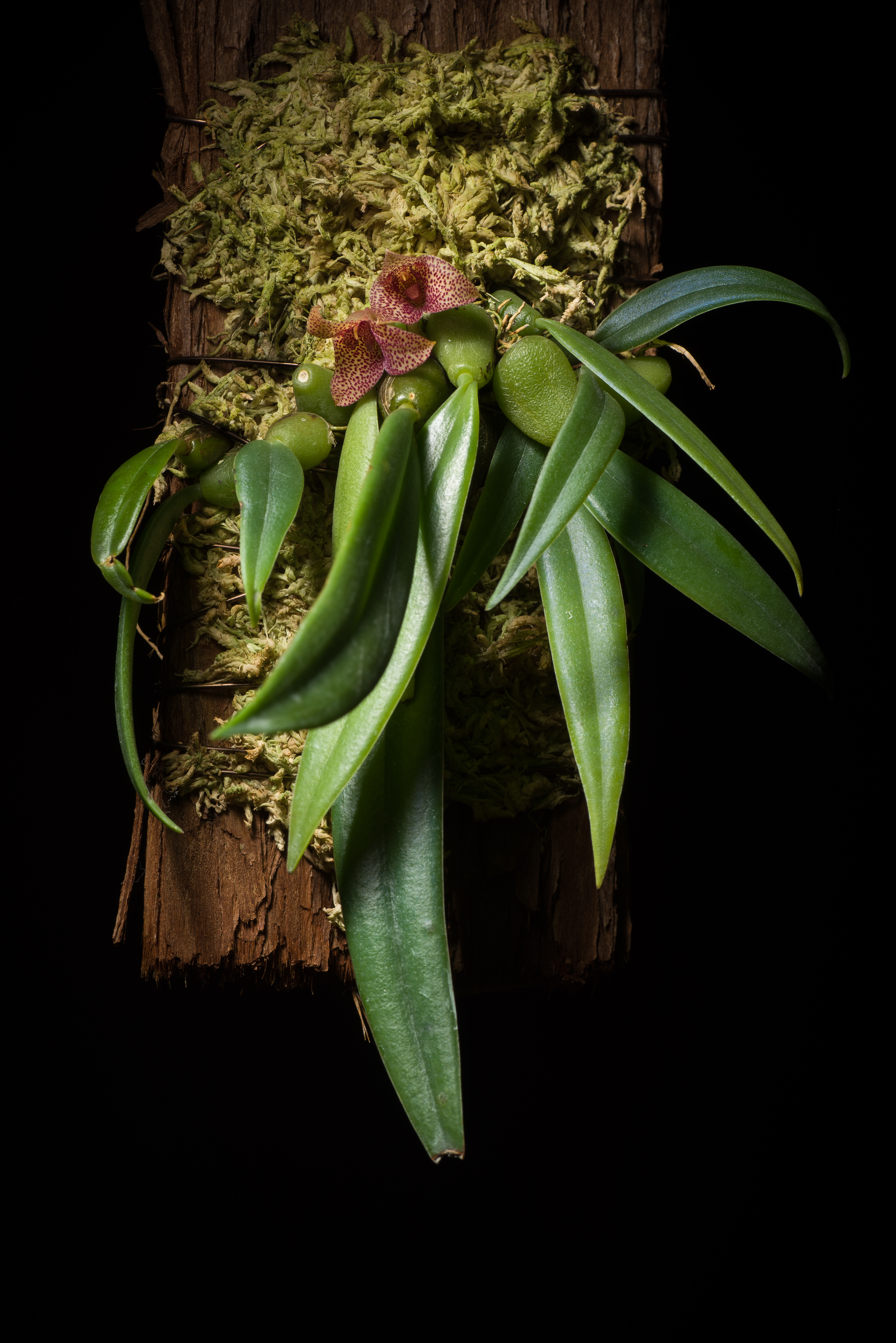 Bulbophyllum pictum - (Thailand)